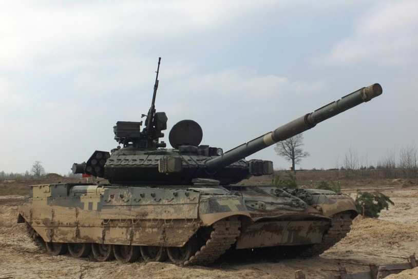 Ukrainian training before Strong Europe Tank Challenge